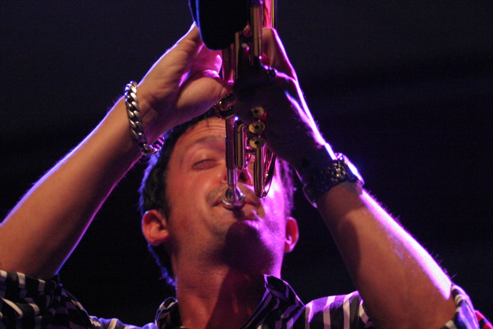 Till Bronner performing on trumpet in 2006, photographed by Tom Beetz